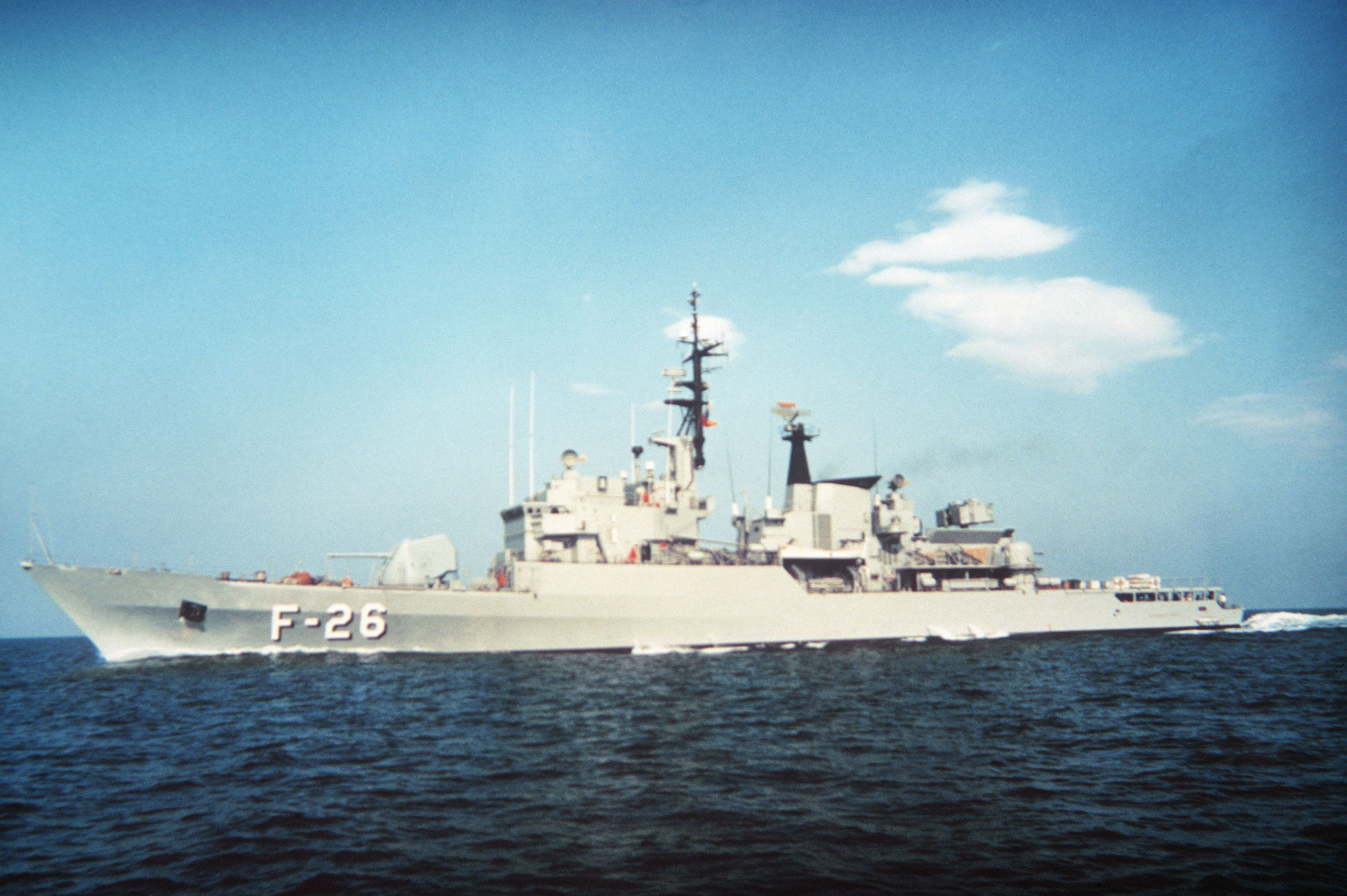 A port side view of the Venezuelan (Italian-built) Lupo class frigate ALMIRANTE JOSE DE GARCIA (F-26) underway.